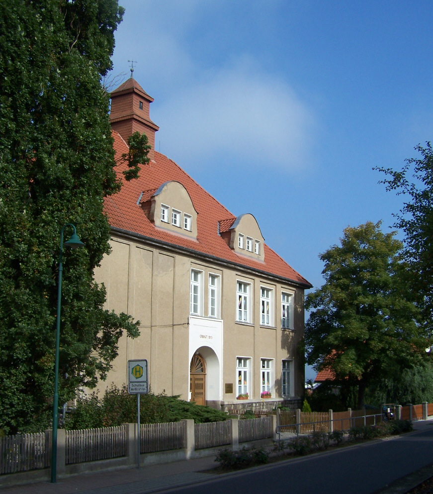 A school-building in Berka/Werra.